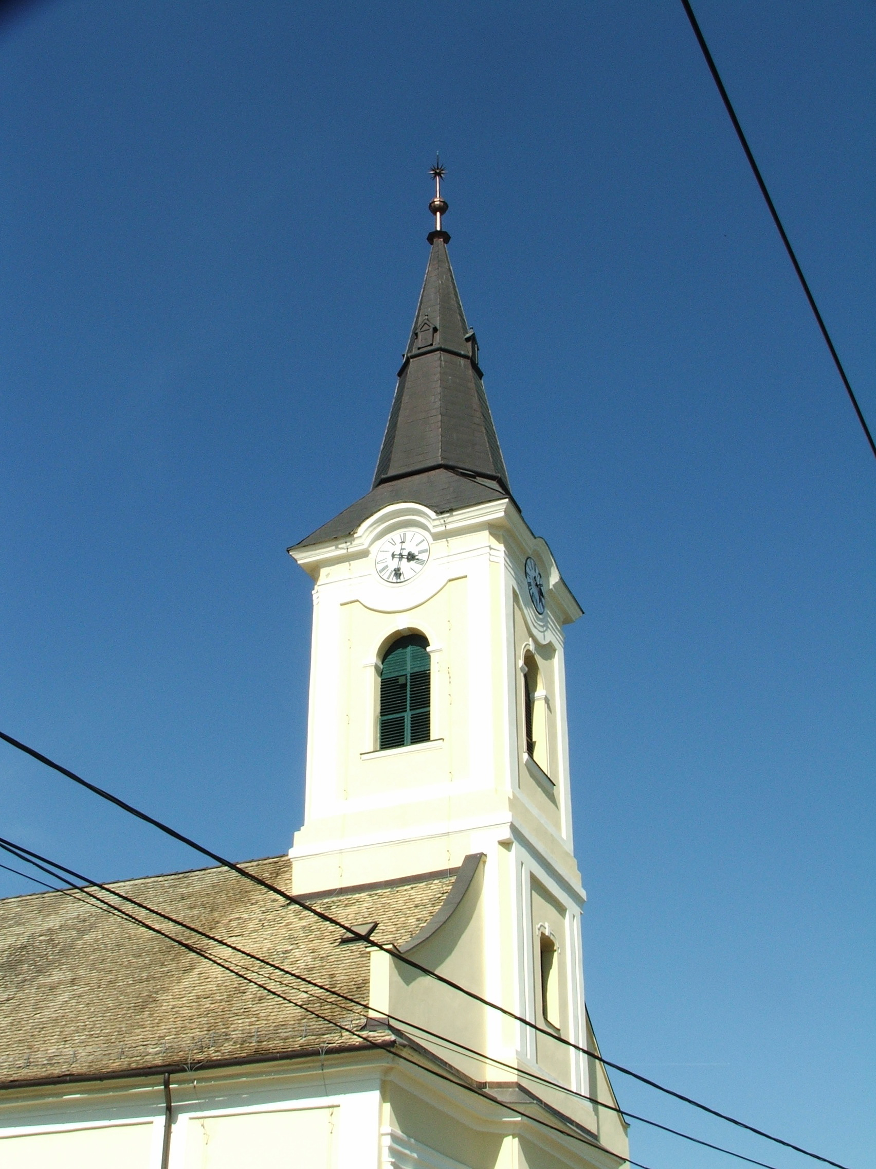 Református templom Bogyiszló